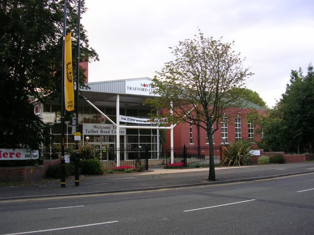 North Trafford College of Further Education. The Talbot Road Centre in Stretford. SJ808956